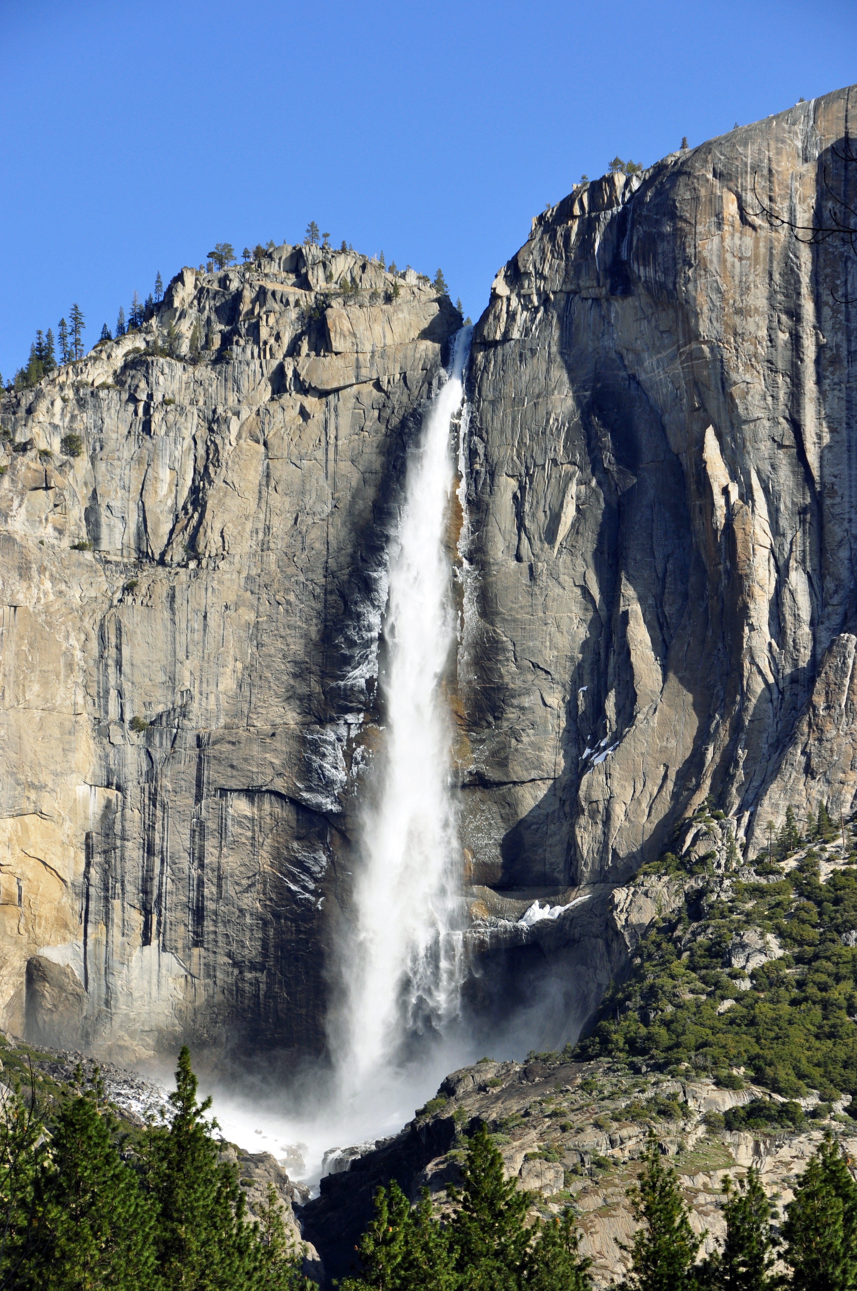 Yosemite National Park Yosemite Upper Falls winter 2010